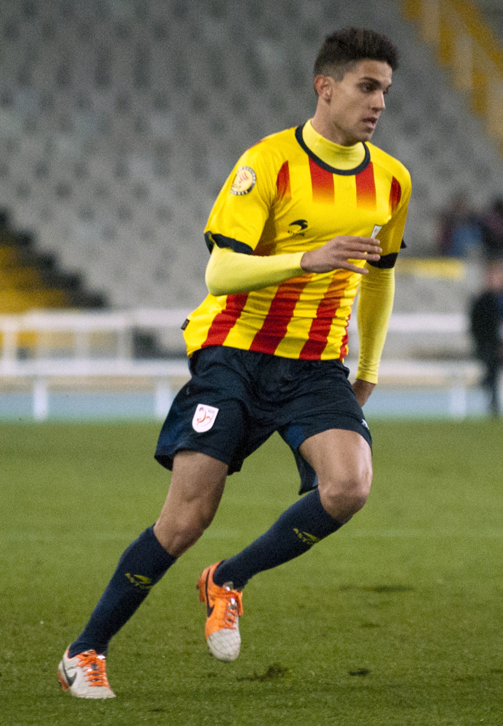 Spanish football player Marc Bartra during friendly match Catalonia vs. Cape Verde